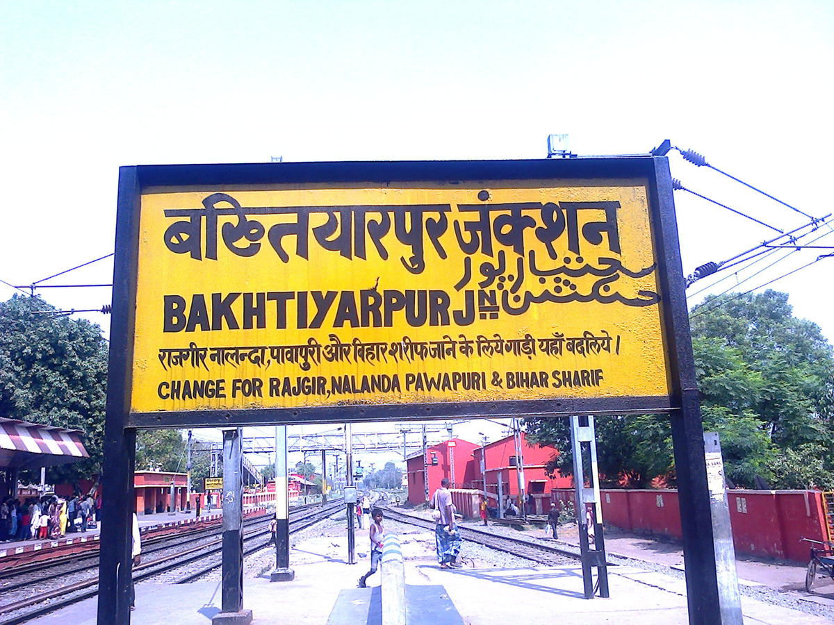 platform board of board of bakhtiyarpur, bakhtiyarpur, Bihar, India